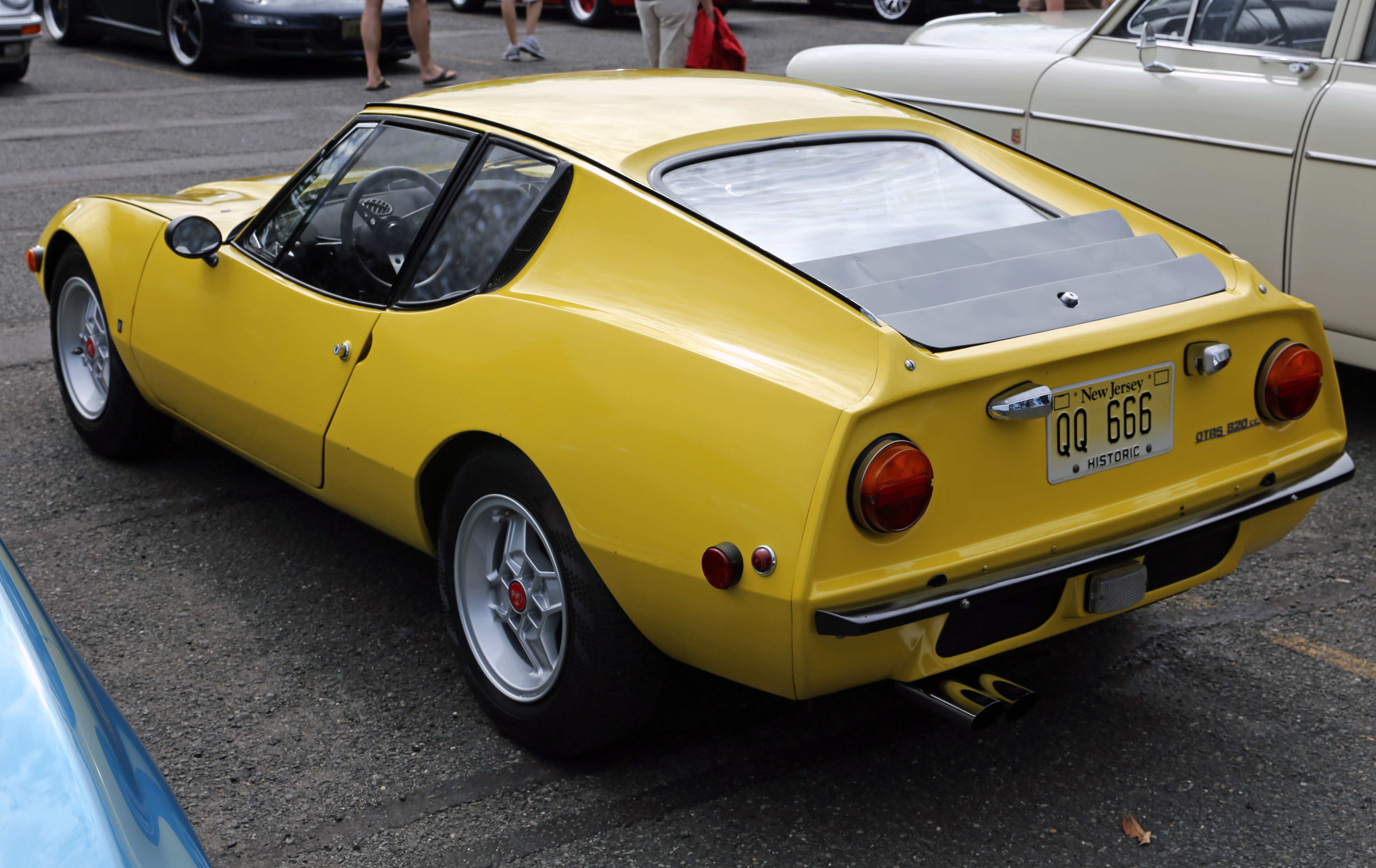 Rear view of a 1971 OTAS Grand Prix 820cc (to give the car's full name according to the emissions plate). This car, chassis no 0035, has had the original 817cc engine replaced by a later, larger unit of 903cc - if I remember correctly.